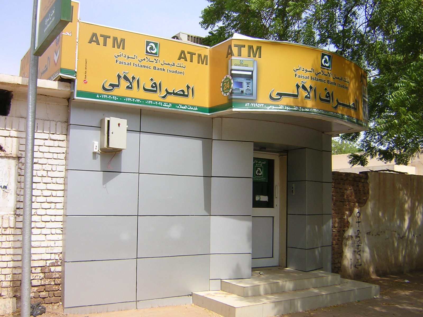 Automatic teller machine of the Faisal Islamic Bank, Khartoum, Sudan.